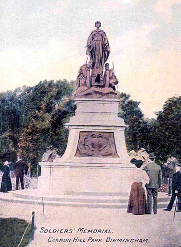 The South African War memorial in Cannon Hill Park, Birmingham, England, by Albert Toft, was unveiled on 23 June 1906 in memory of the servicemen from Birmingham who were killed in the Second Anglo-Boer War of 1899 to 1902.